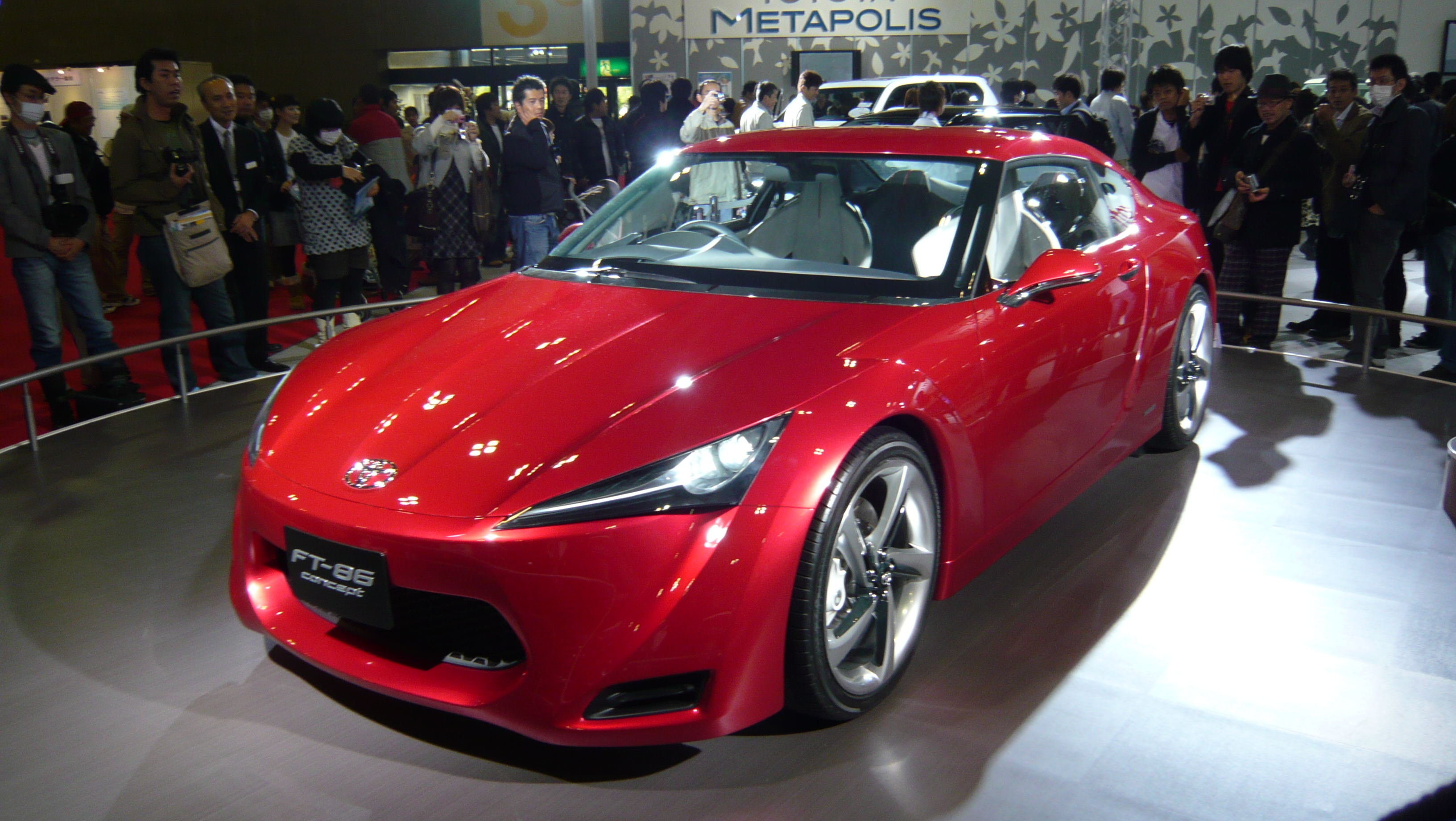 Toyota FT-86 concept